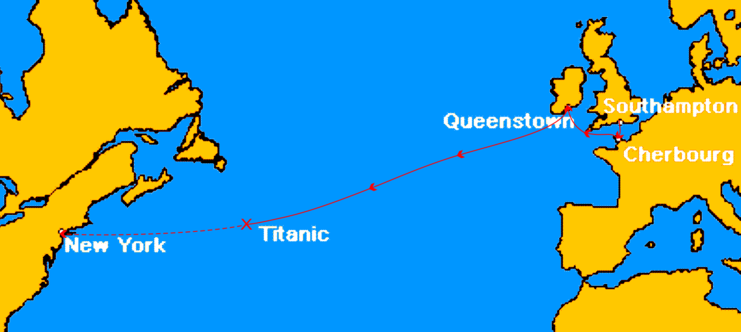 Map marks the route of Titanic during her maiden voyage, the ports on that route, and approximate location of where she sank. The remaining portion of her uncompleted route is shown dashed.